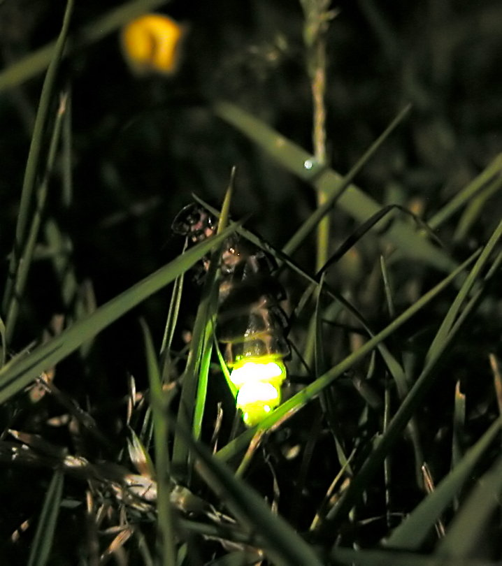 A female Common Glow-worm (Lampyris noctiluca) in the grass in Loudwater, Buckinghamshire.